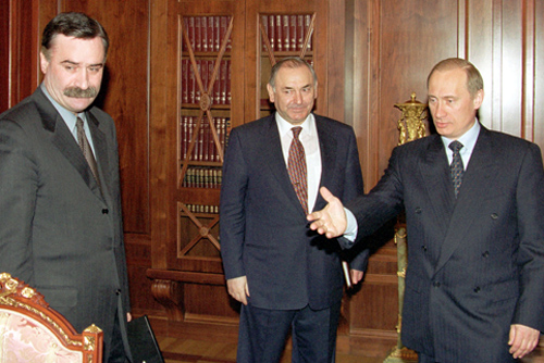 THE KREMLIN, MOSCOW. With the President of Republic of North Ossetia-Alaniaa Alexander Dzasokhov (in the centre) and the President of the Republic of Ingushetia Ruslan Aushev.